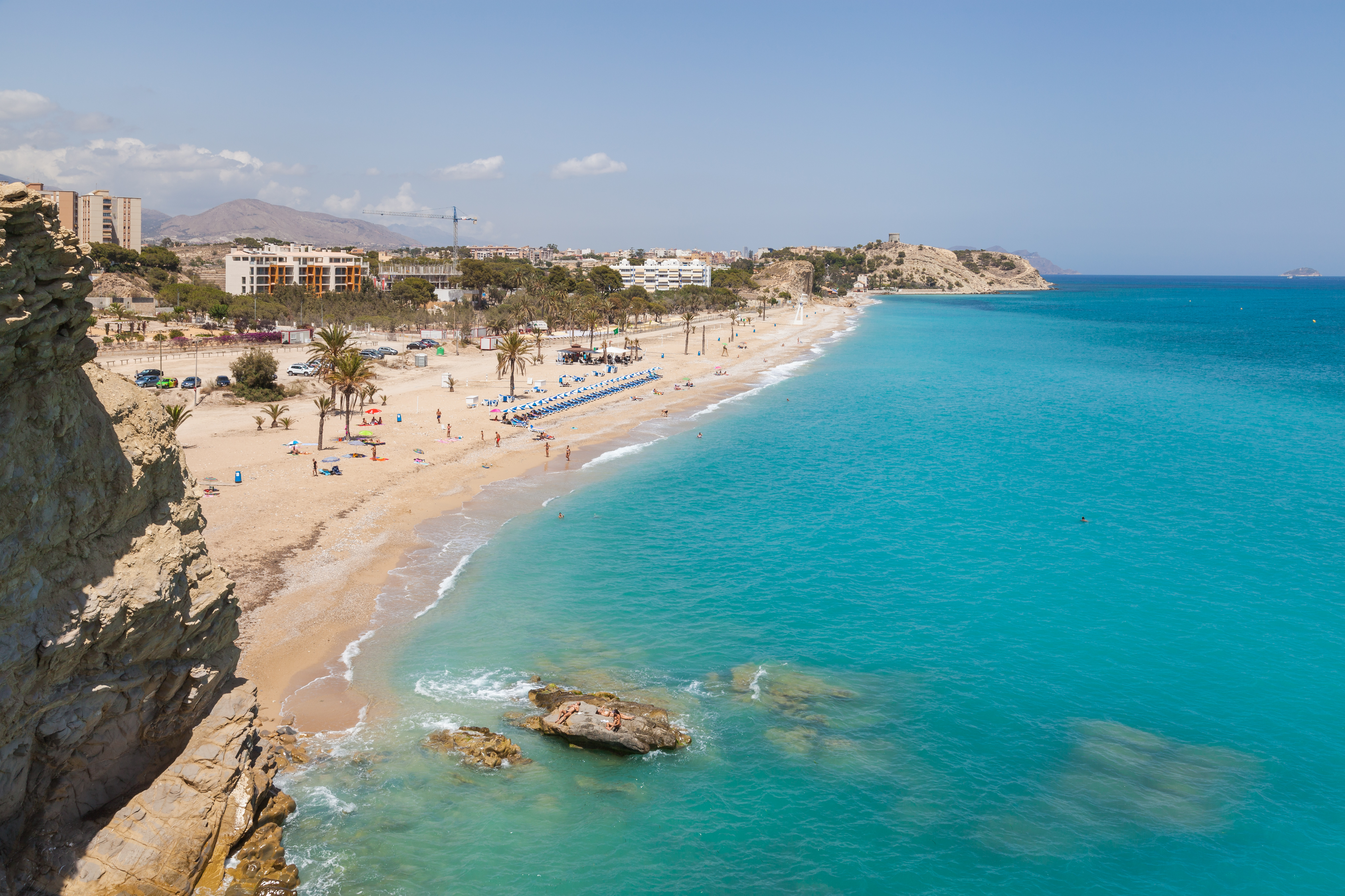 Paradise Beach, Villajoyosa, Spain